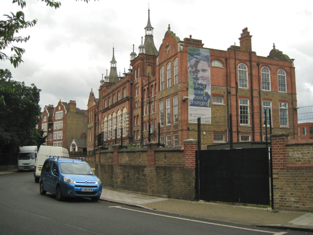 Charles Edward Brooke School, Cormont Road